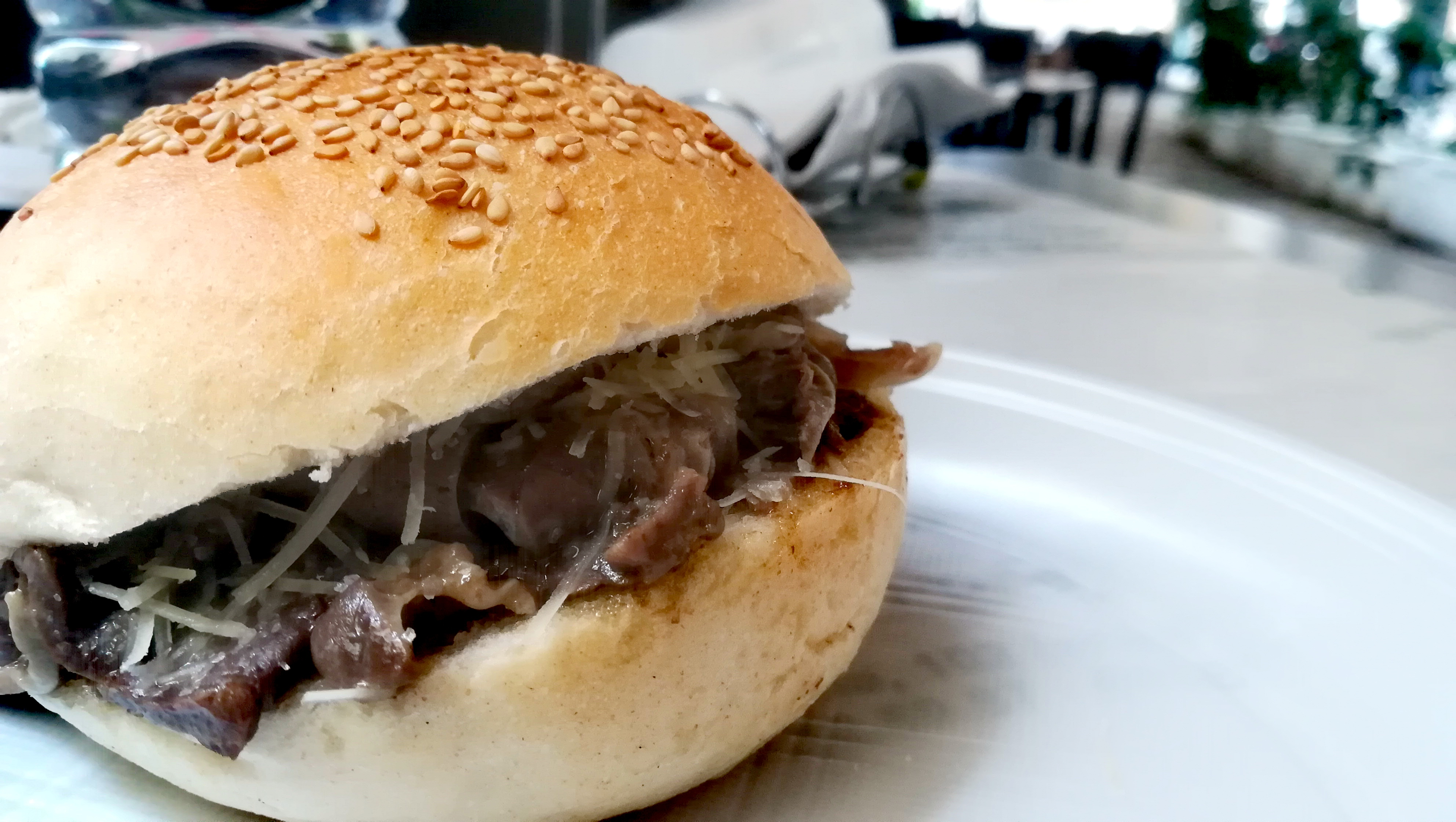 pani ca meuss is a street food specialty from Sicily, basically a sandwich with cooked spleen.